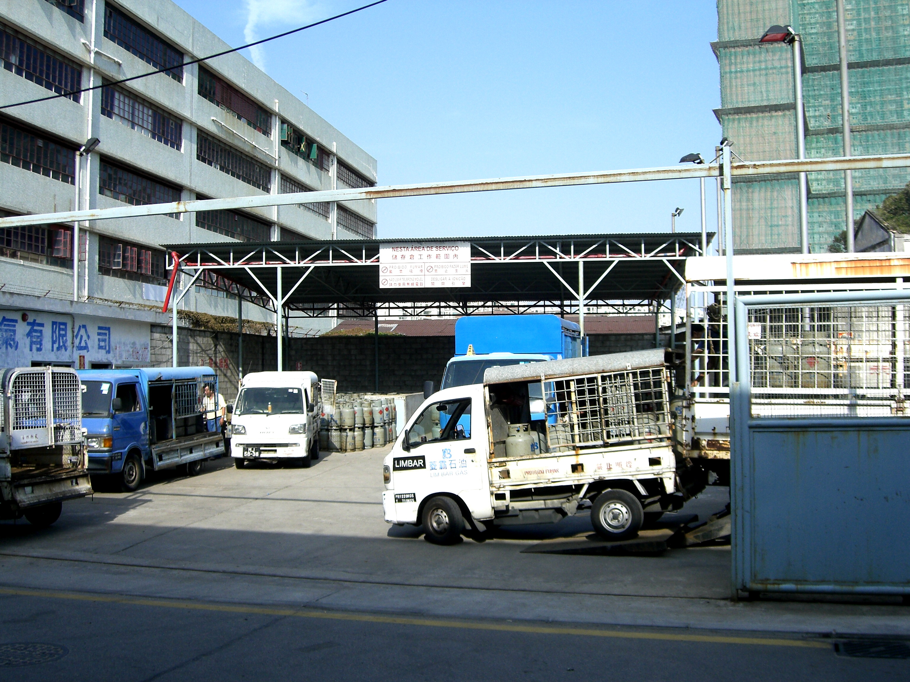 Macau Limbar LPG Warehouse